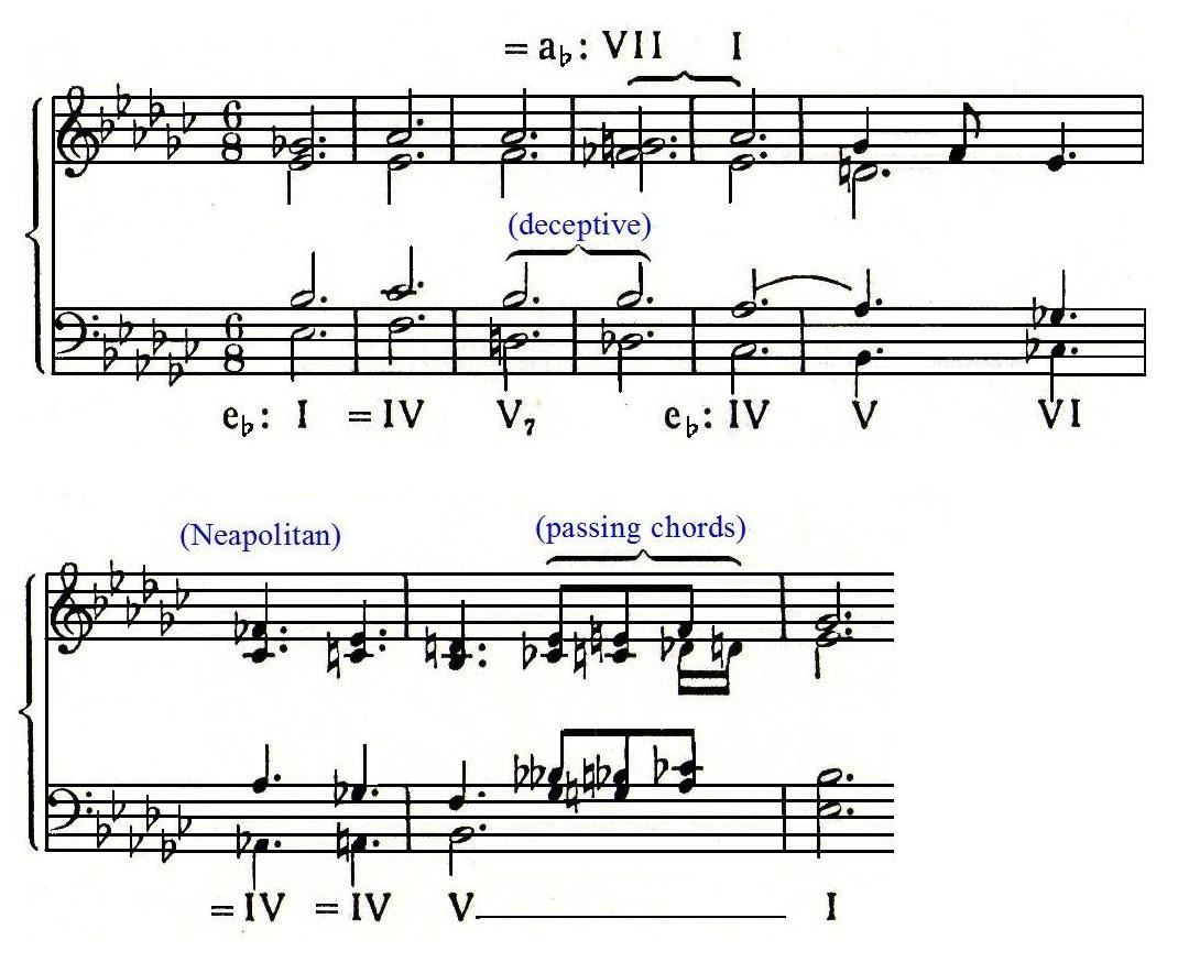 Chopin Etude Op. 10, No. 6: harmonic reduction (bars 1 - 9) after Hugo Leichtentritt